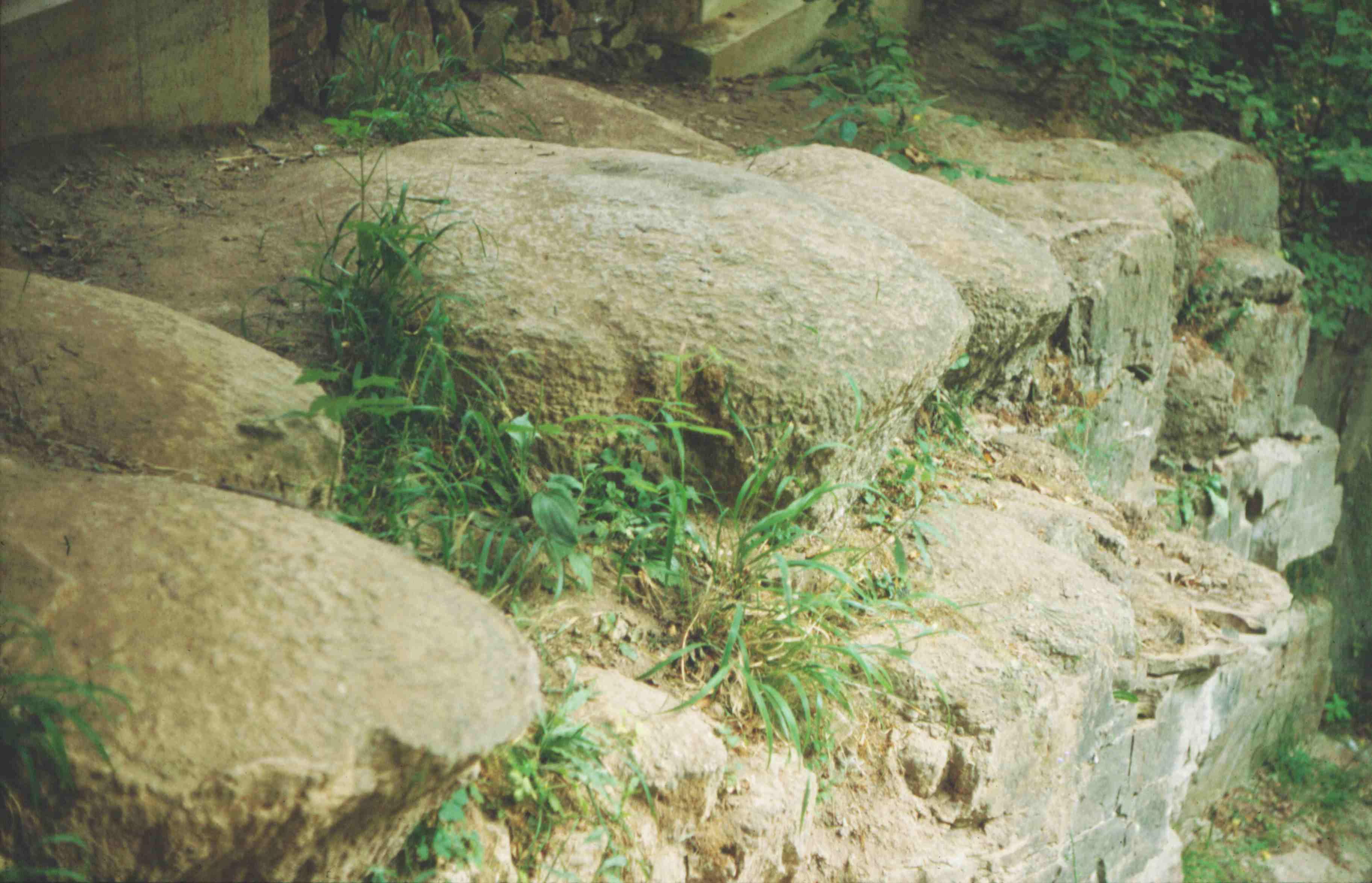 Stromatolites, Lower Buntsandstein. Location: Wilhelmshall, Huy, Sachsen-Anhalt, Germany.